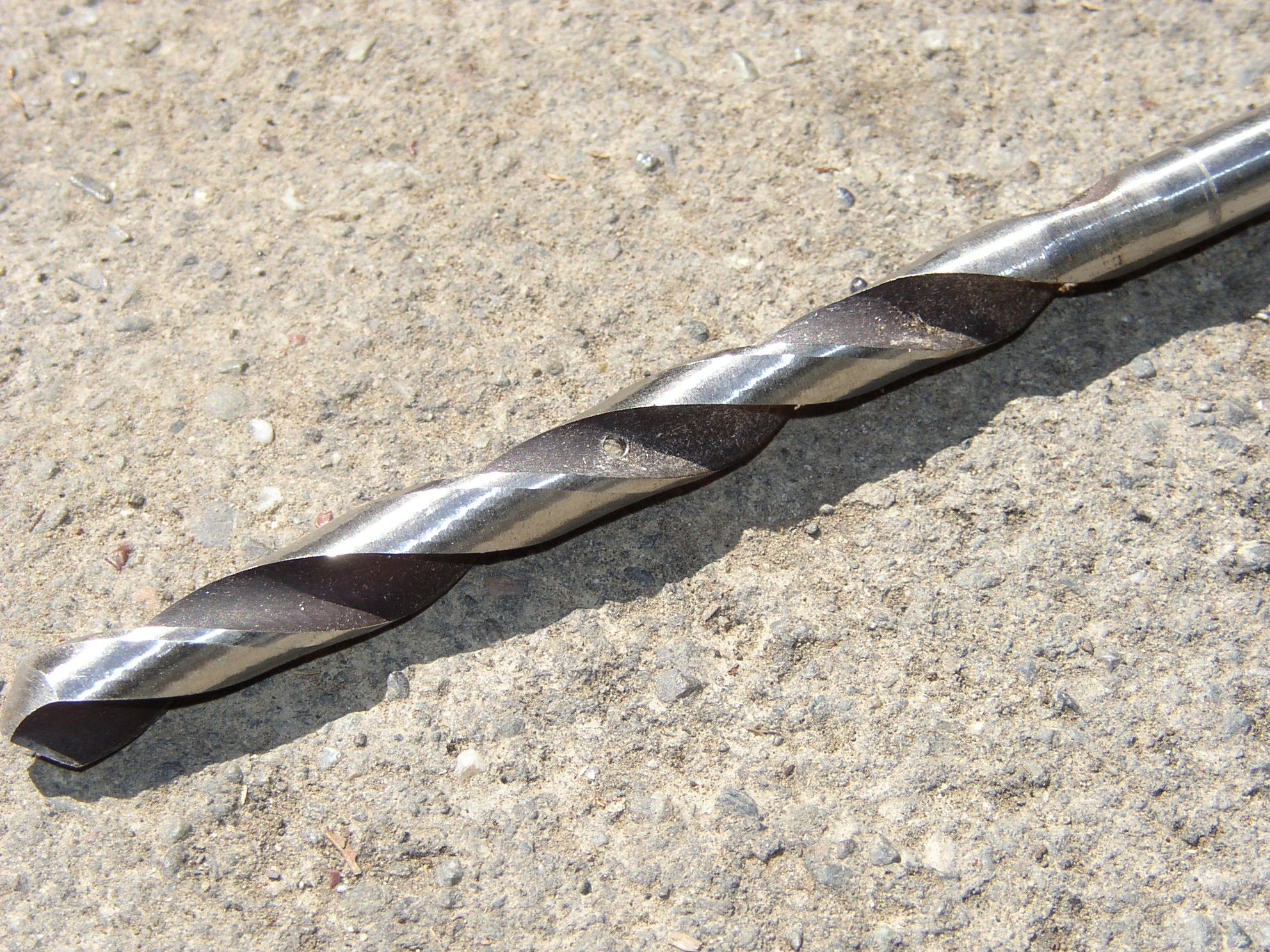 A closeup of 3/8" installer bit. Note cable-pulling hole through the web of the twist drill section, about in the center of the photo. I took this photo myself, of my drill bit, and release it under the GFDL.